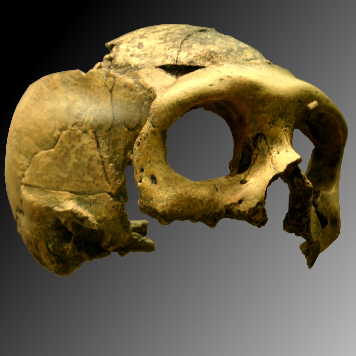 A replica of the Krapina 3 skull at the David H. Koch Hall of Human Origins, Smithsonian Natural History Museum.